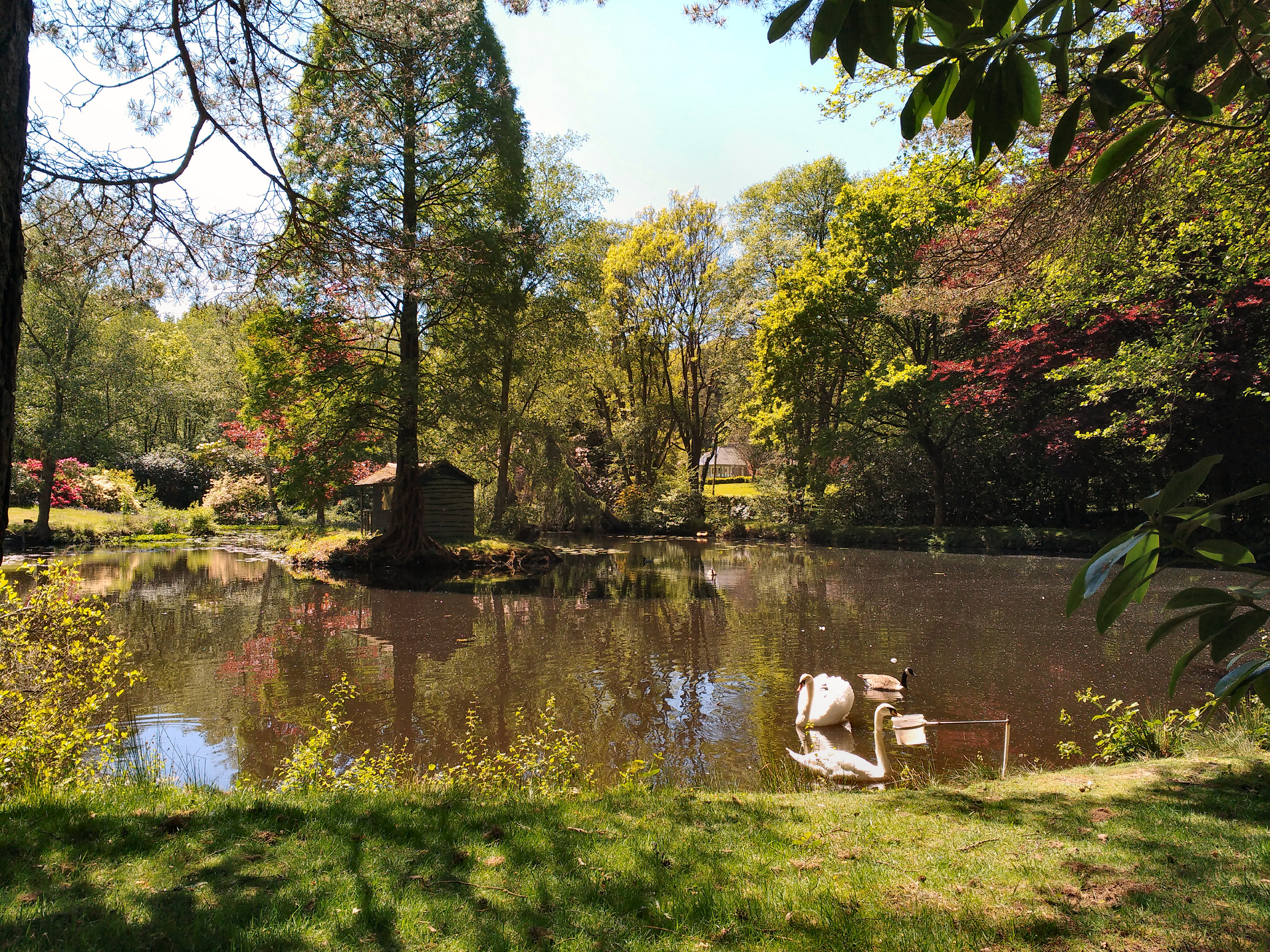 Tilling Springs, Broadmoor. The pond from the footpath